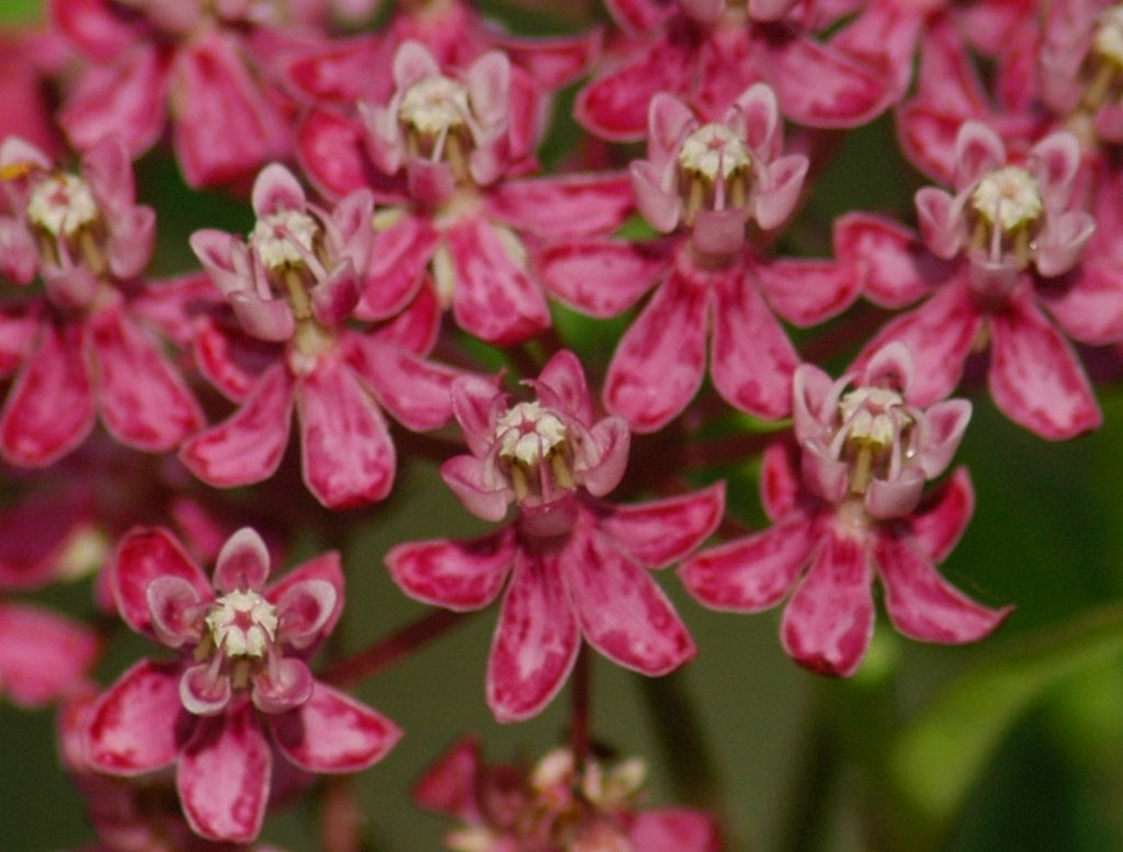 detail of florets of Swamp Milkweed Asclepias incarnata macro